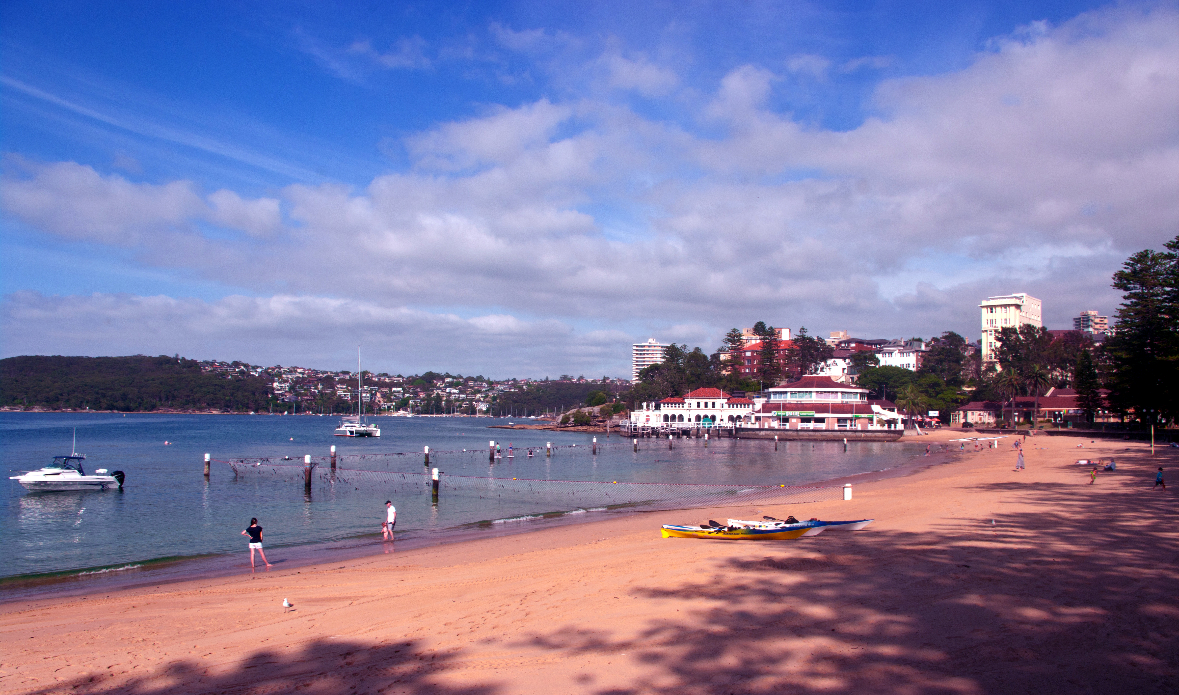 Manly beach with Manly Sea World in the backdrop.